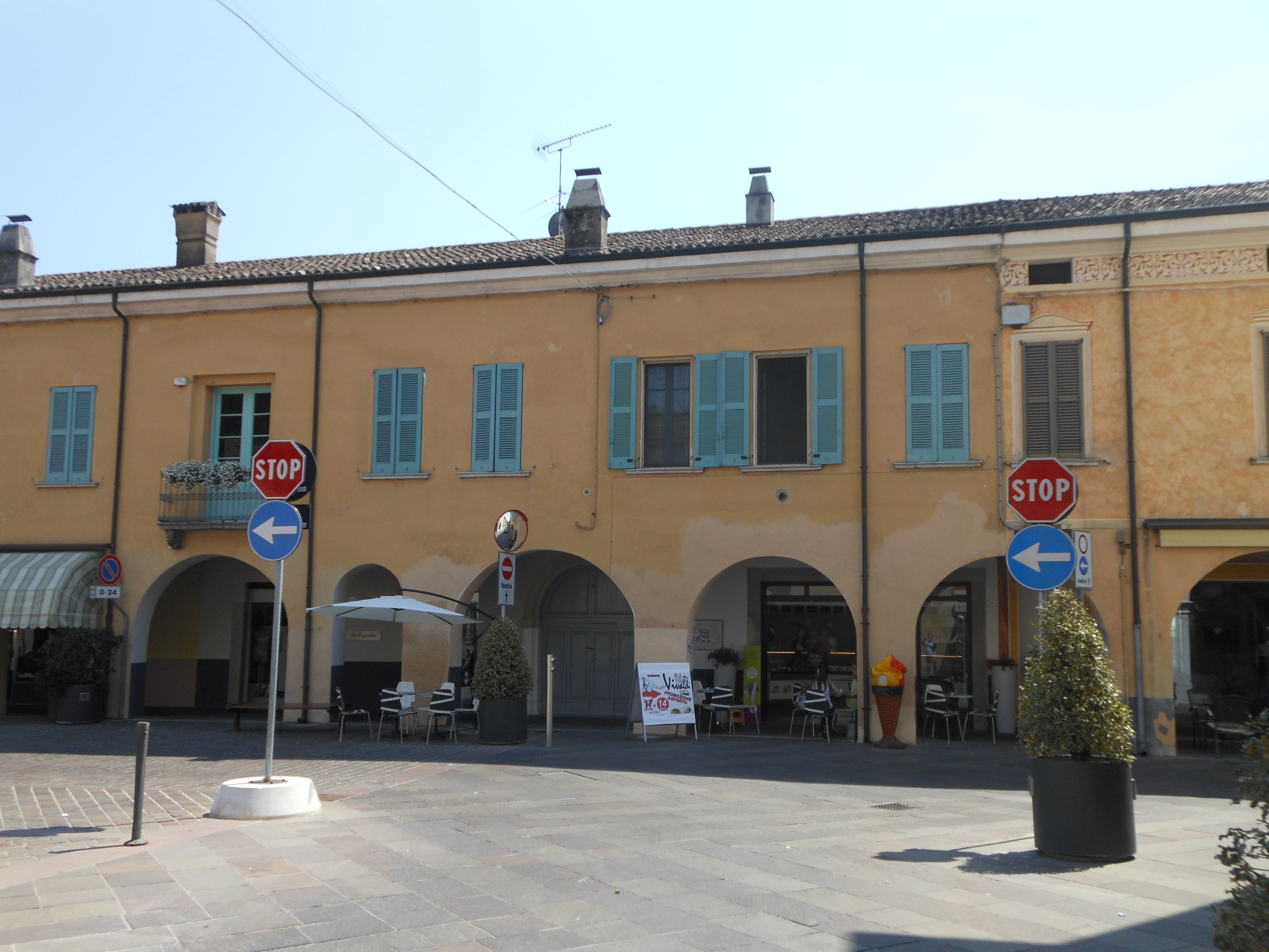 Palazzo Riva in città